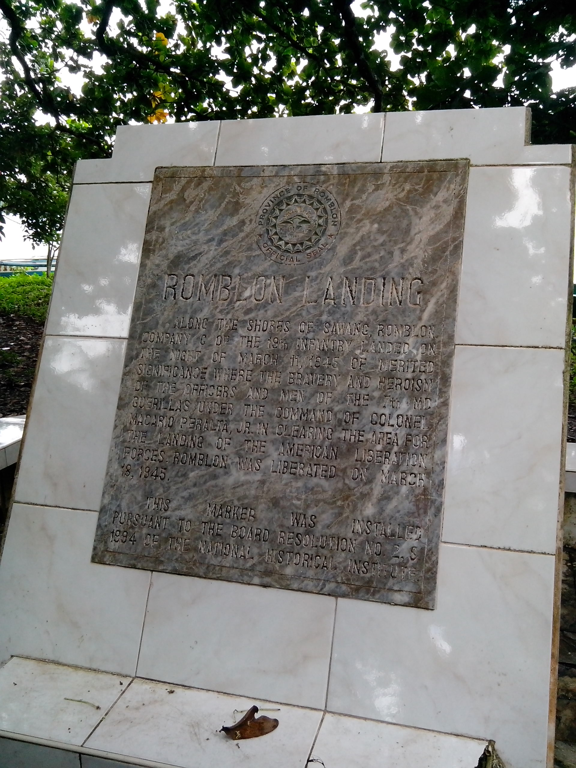 Plaque commemorating the landing of troops in barangay Sawang for the WW-II liberation of Romblon on March 11, 1945. Below the official seal of the province of Romblon, the inscription reads: Romblon Landing Along the shores of Sawang, Romblon, Company C of the 19th Infantry landed on the night of March 11, 1945. Of merited significance where the bravery and heroism of the officers and men of the 7th MD Guerillas under the command of Colonel Macario Peralta, Jr. in clearing the area for the landing of the American liberation forces. Romblon was liberated on March 18, 1945. This marker was installed pursuant to the Board Resolution No. 2 S 1994 of the National Historical Institute.